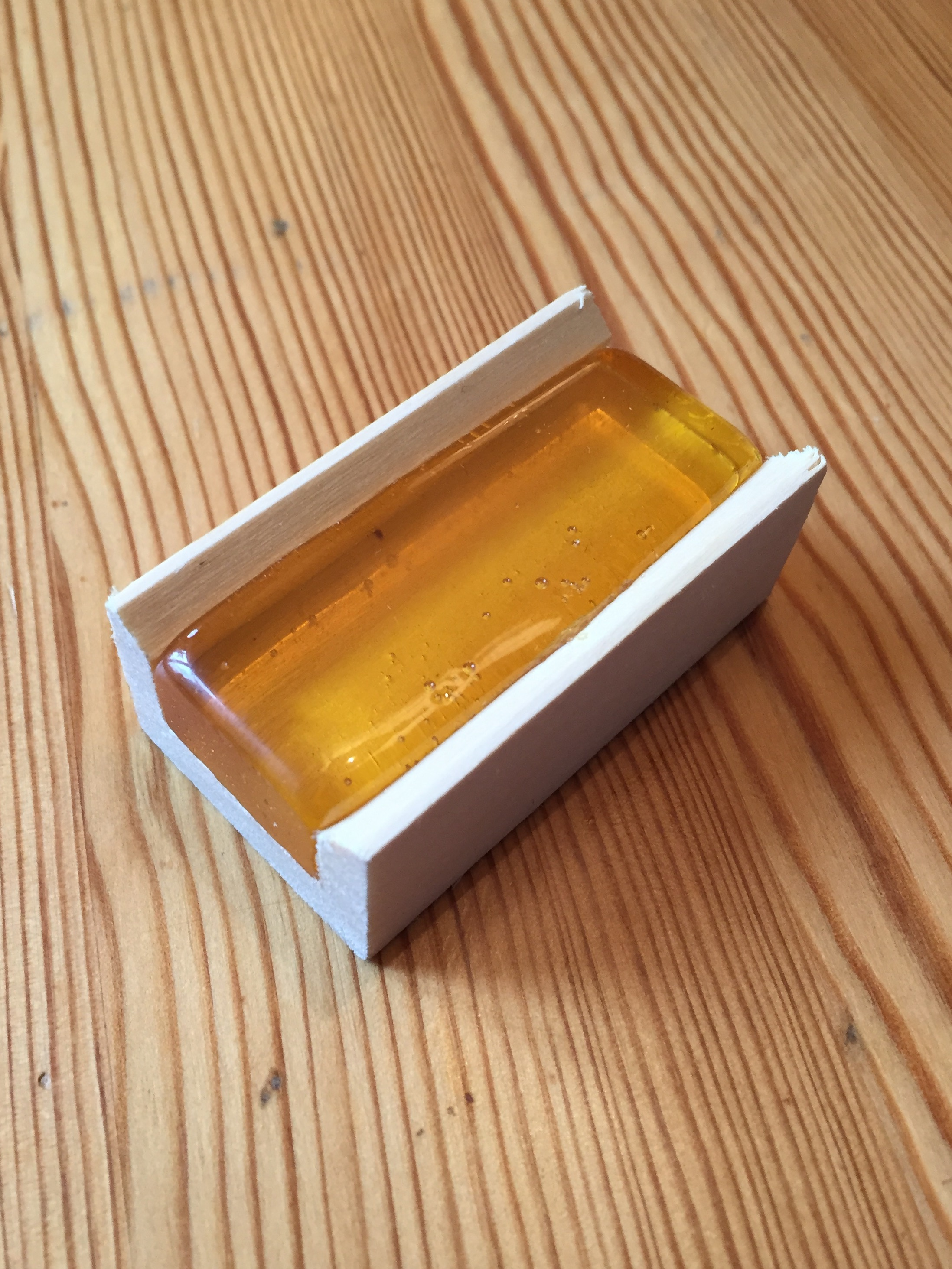 A piece of Rosin, also called colophony.